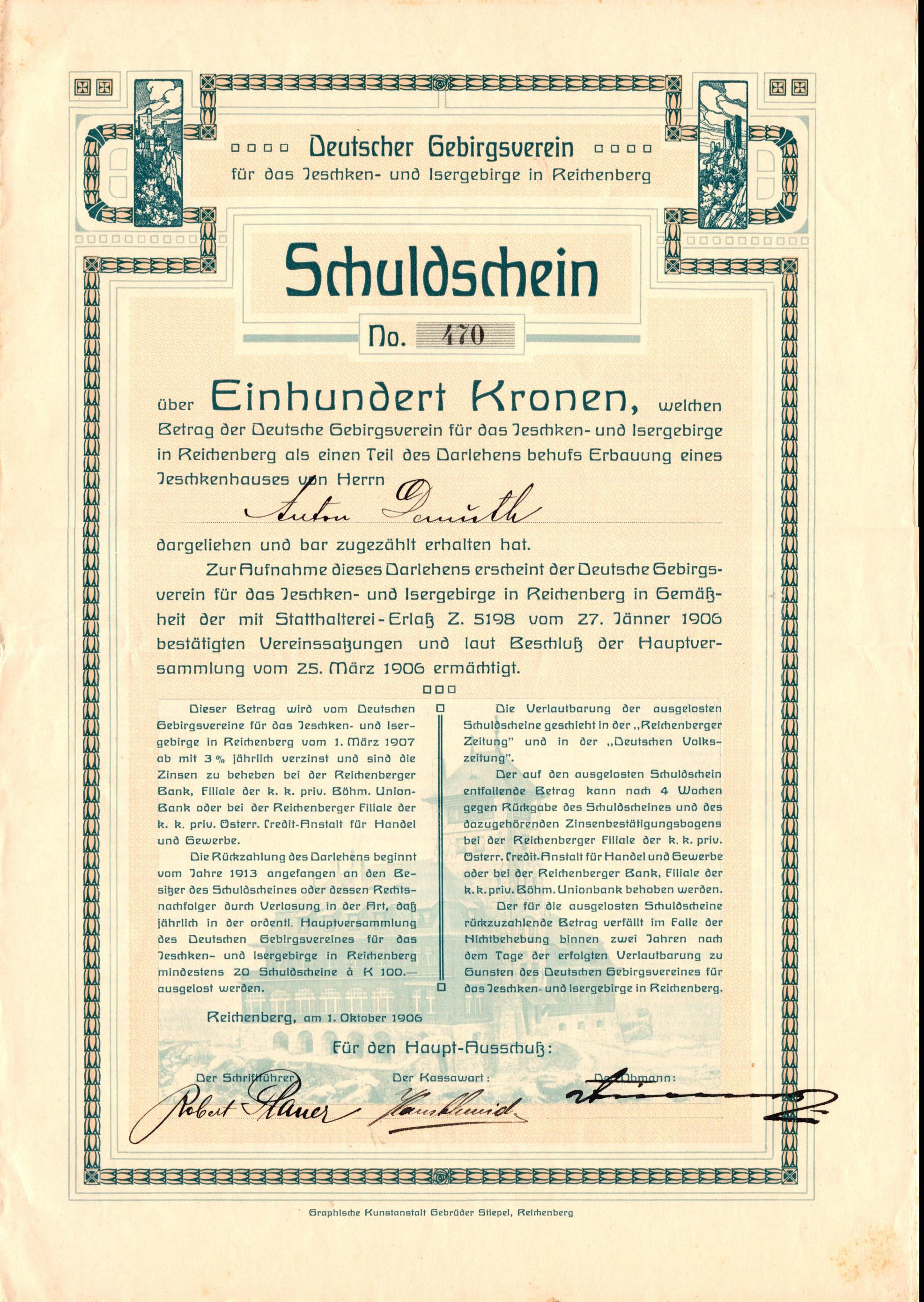 Debenture of the Deutscher Gebirgsverein, issued 1. October 1906